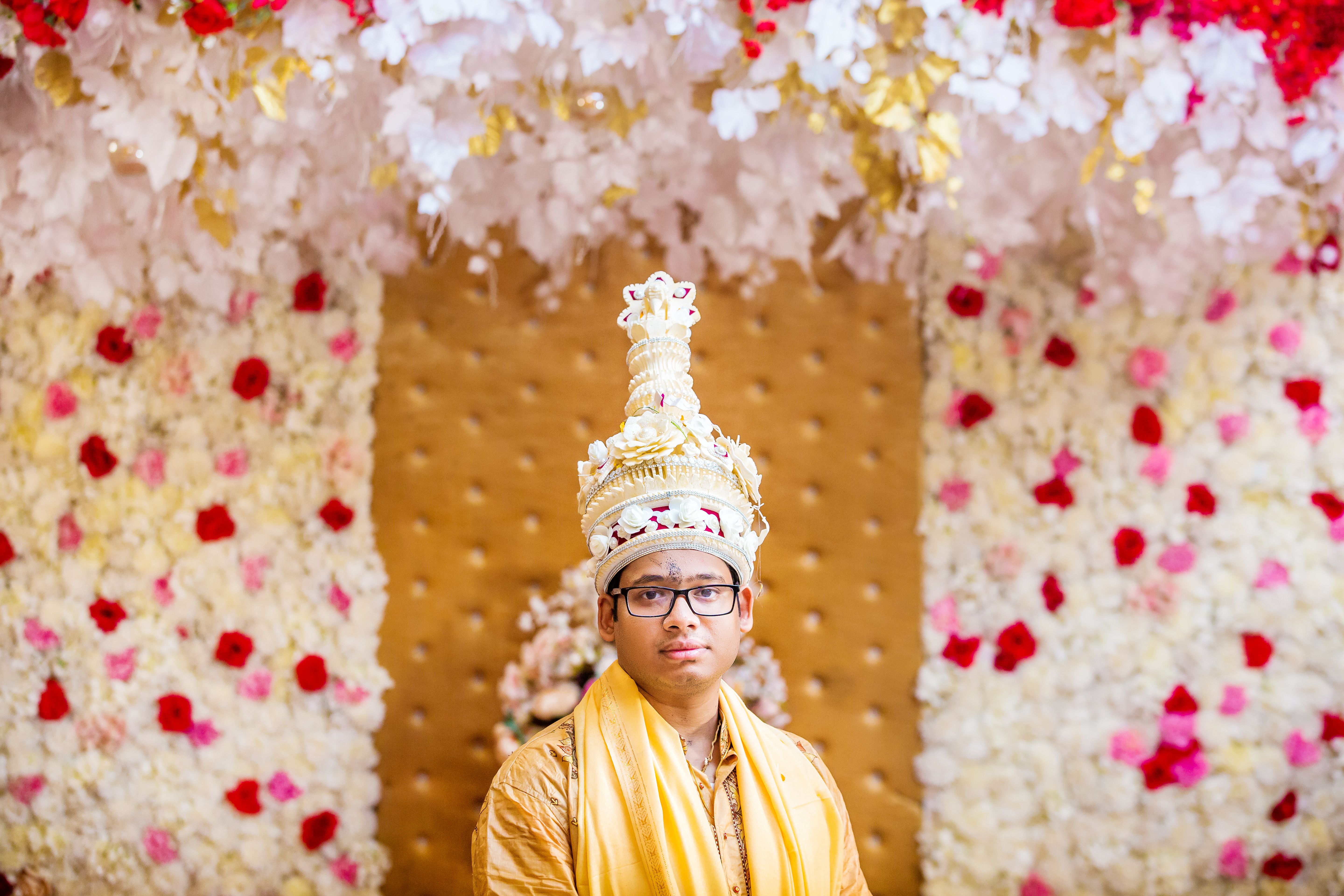 Hindu Groom